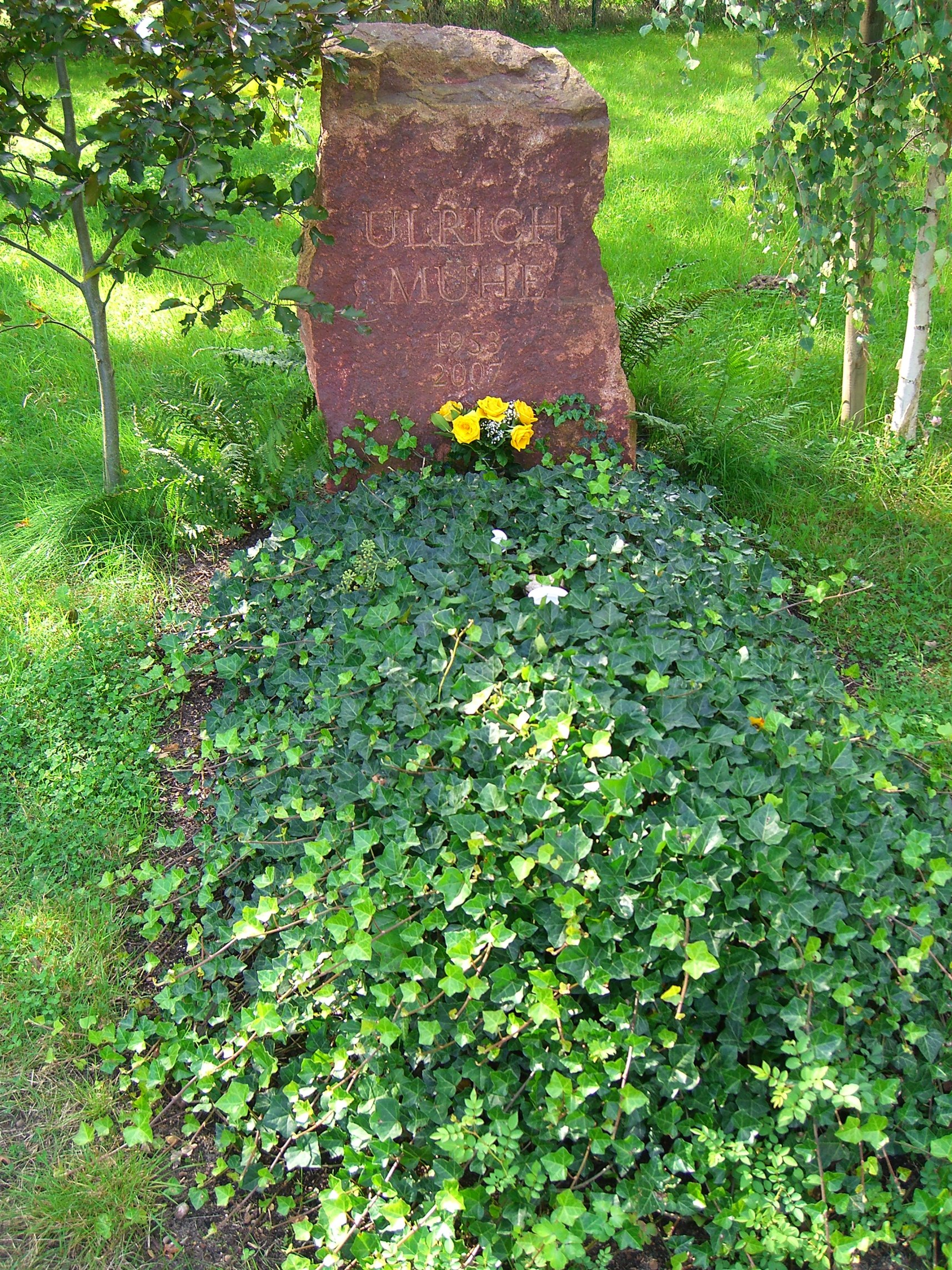 Grave of German actor Ulrich Mühe at cemetery in Walbeck.